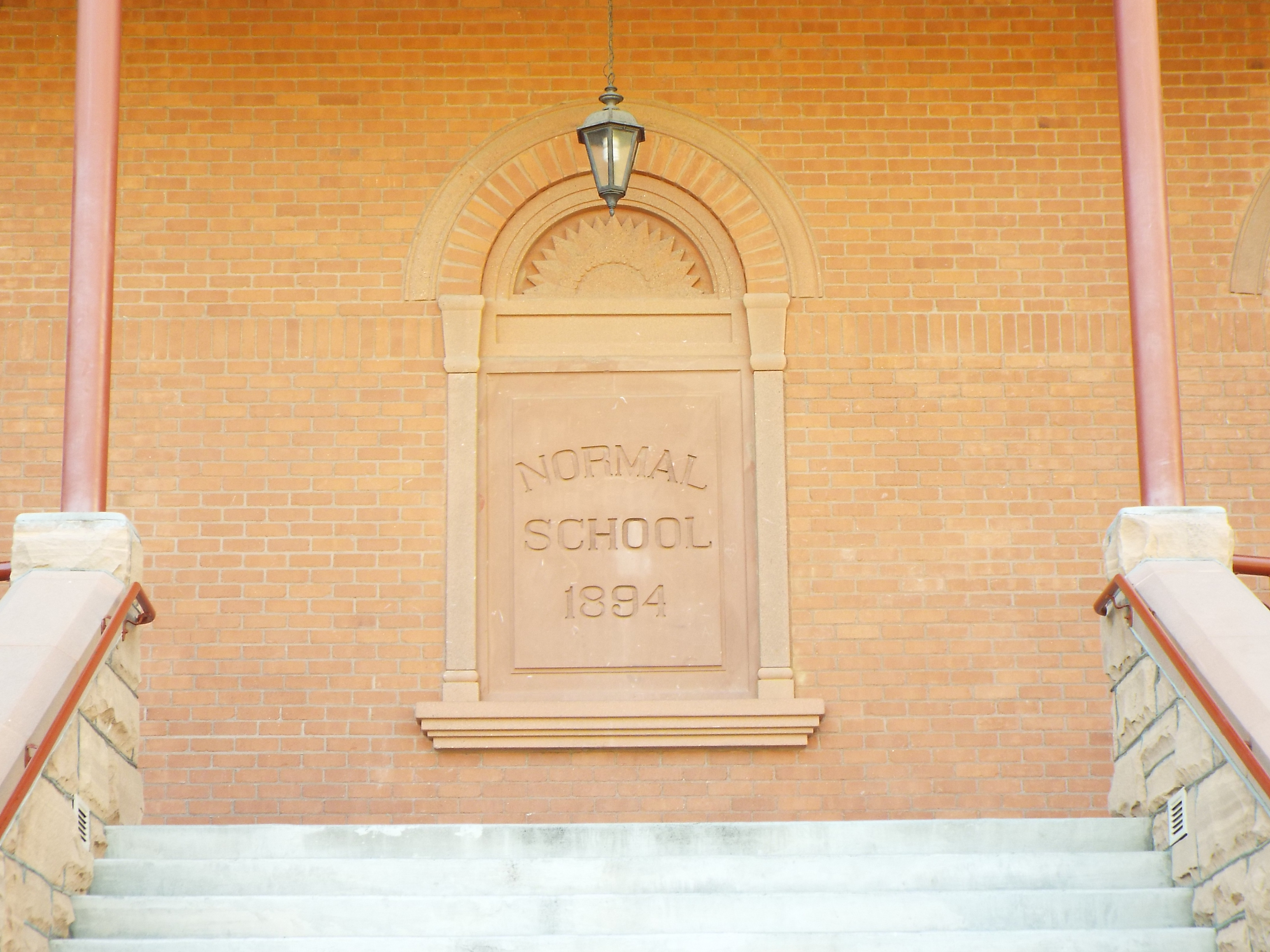 The Main Building Tempe Normal School, a.k.a. Old Main, was built in 1875 and is located in 400 E. Taylor Mall within the ASU Campus in Tempe, Az. It was listed in the National Register of Historic Places in January 7, 1985, reference #85000052.